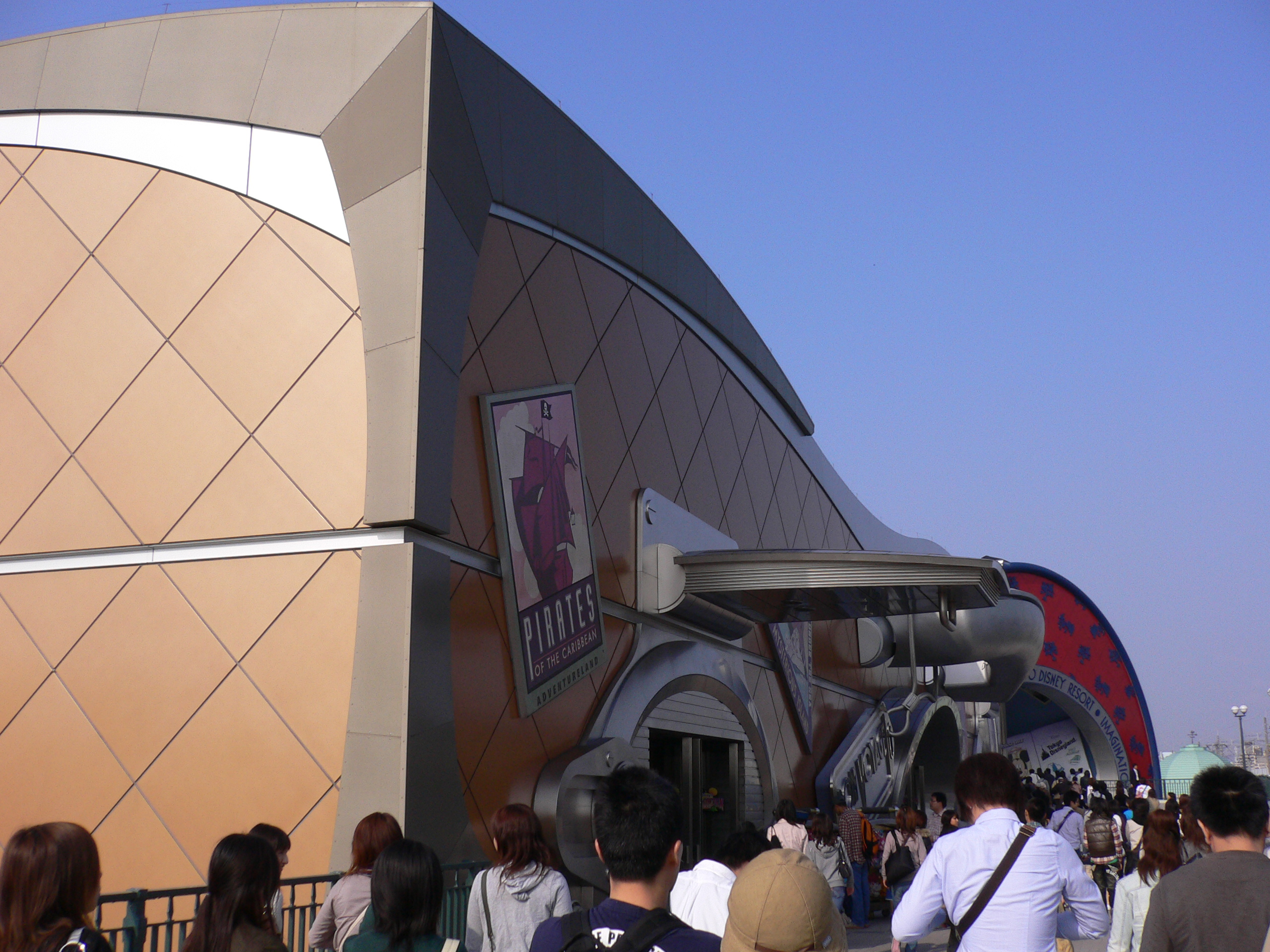 Bon Voyage!